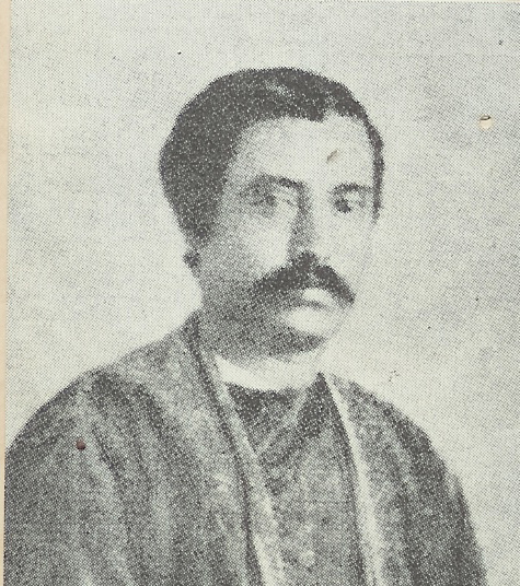 Pic from Bethune School and College Centenary Volume 1949. No copyright.